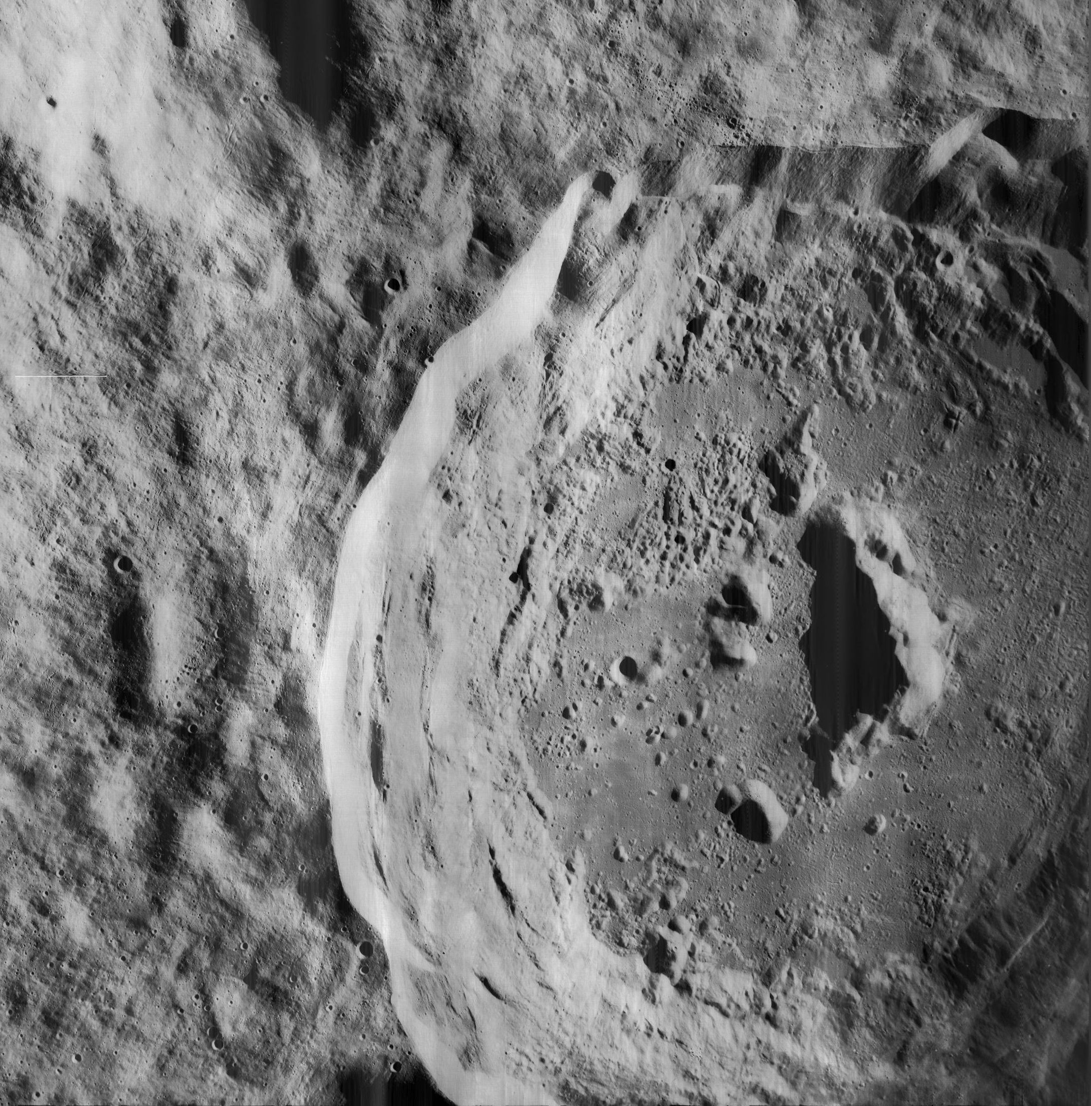 Part of Stevinus, on the moon, with north at top.